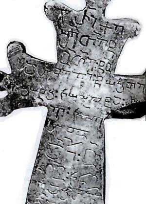 Old Avarian cross with georgian-avarian insription The_Daghestanian_Central_United_Local-History_ Museum_Makhachkala